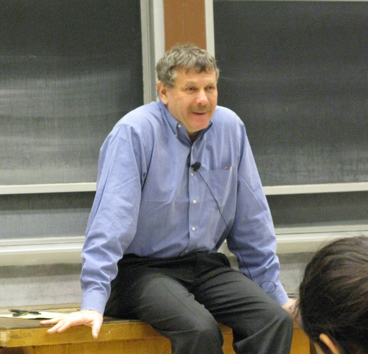 Professor Eric Lander teaching the final lecture of 7.012 (Introduction to Biology) in the Fall of 2008 at Massachusetts Institute of Technology.